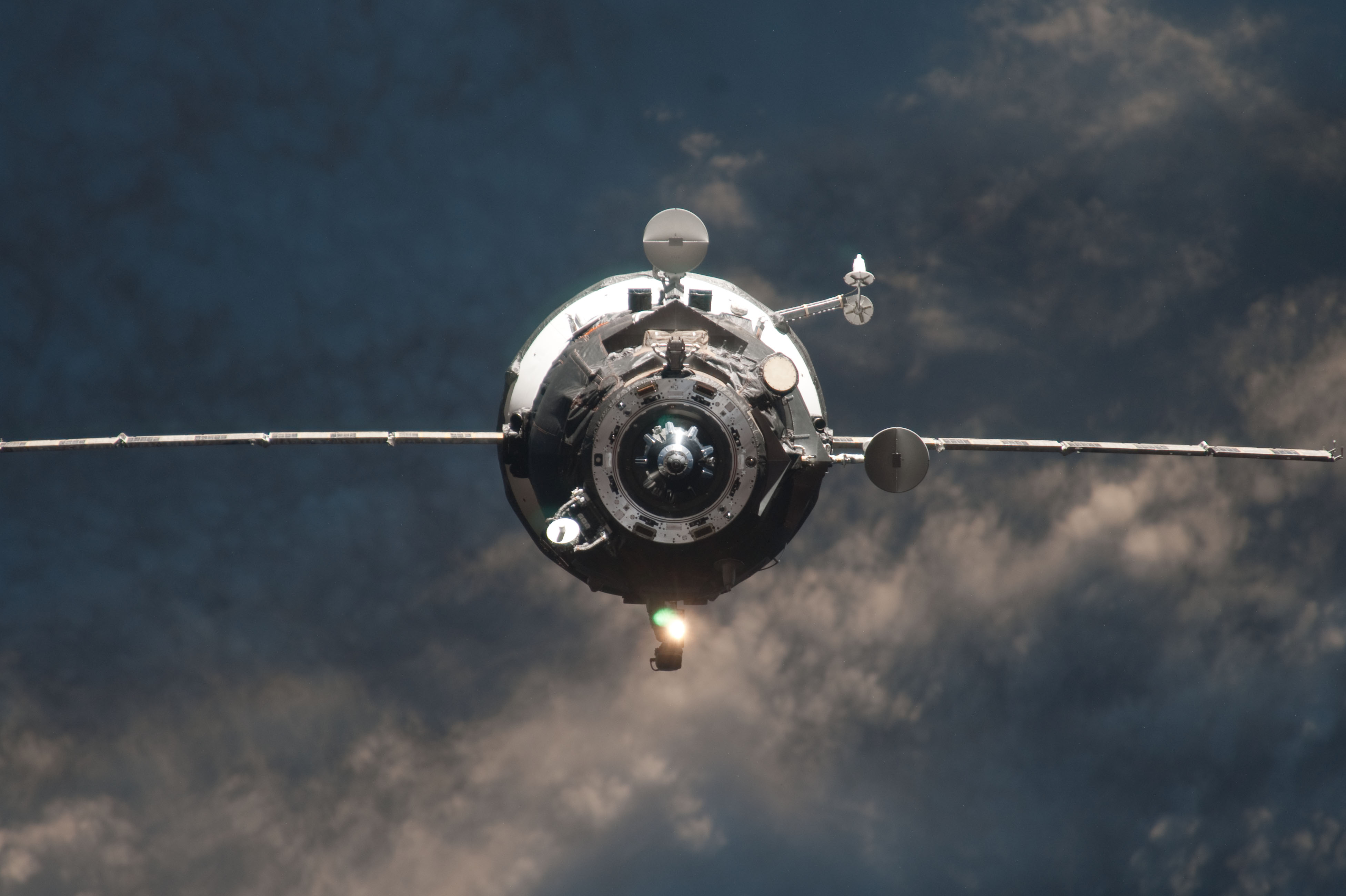 An unpiloted ISS Progress resupply vehicle approaches the International Space Station, carrying 2,050 pounds of propellant, 110 pounds oxygen and air, 926 pounds of water and 2,778 pounds of spare parts and experiment hardware for a total of 2.9 tons of food, fuel and equipment for the residents of the space station. Progress 46 docked to the station's Pirs Docking Compartment at 7:09 p.m. (EST) on Jan. 27, 2012.